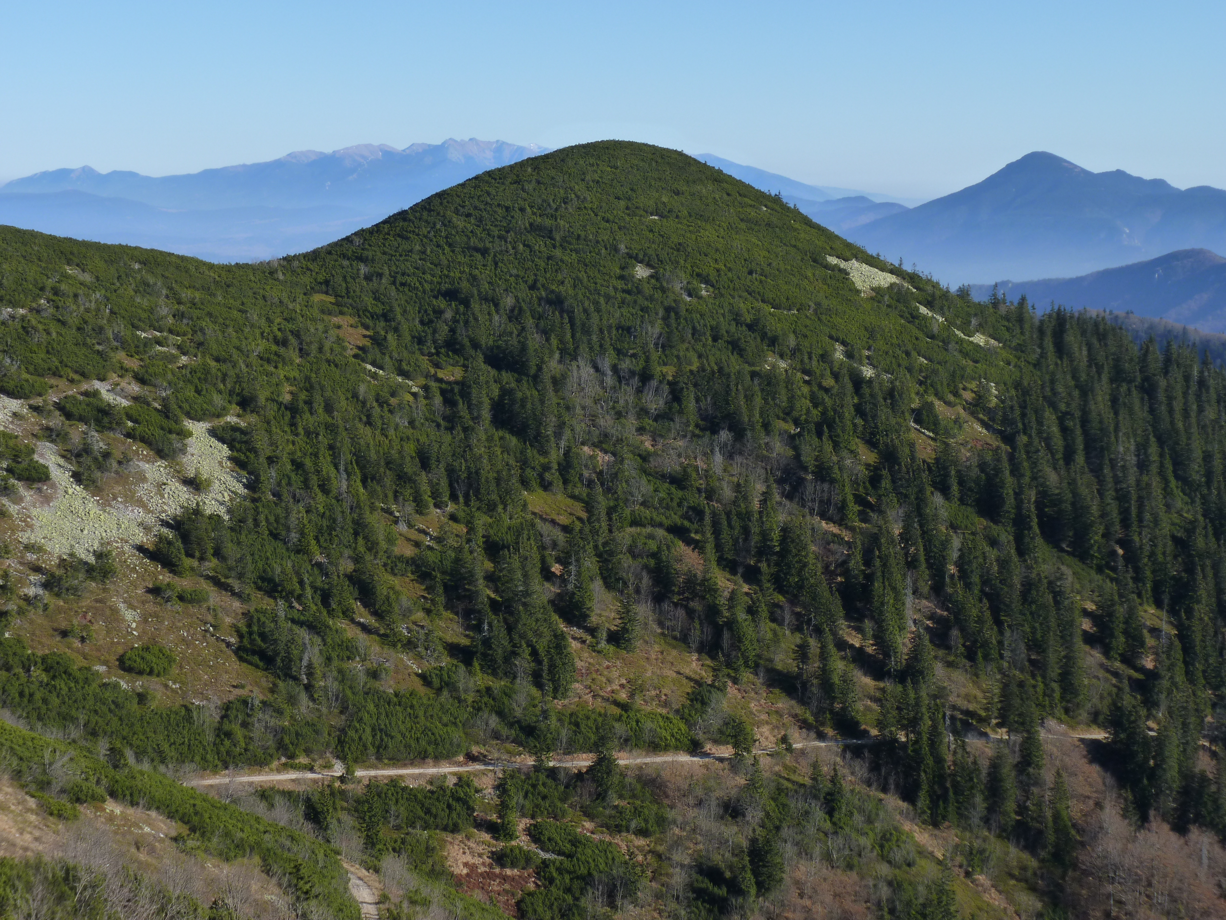 National Park Lesser Fatra, Slovakia